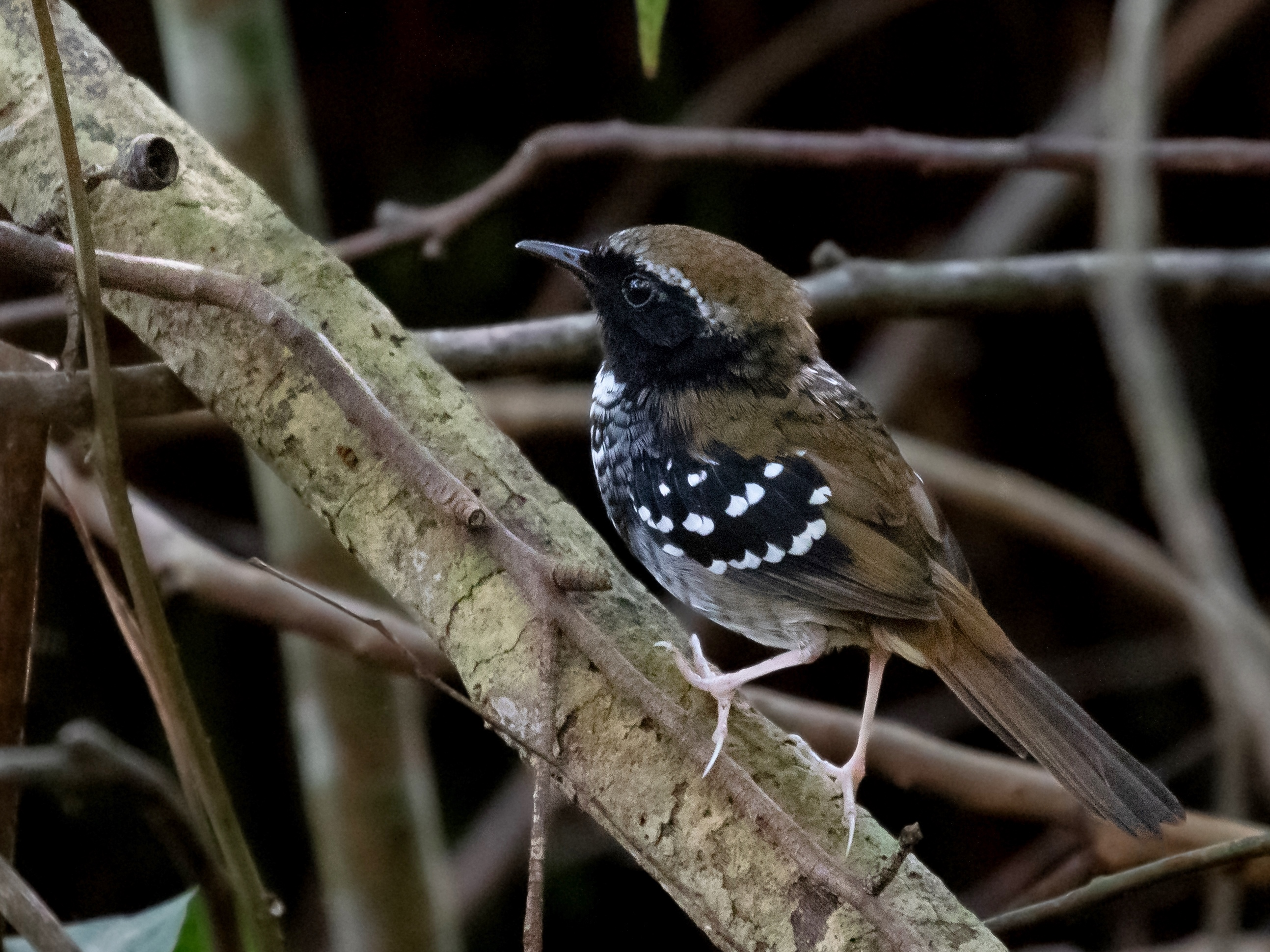 Squamate antibird (male); Tremembé, São Paulo, Brazil